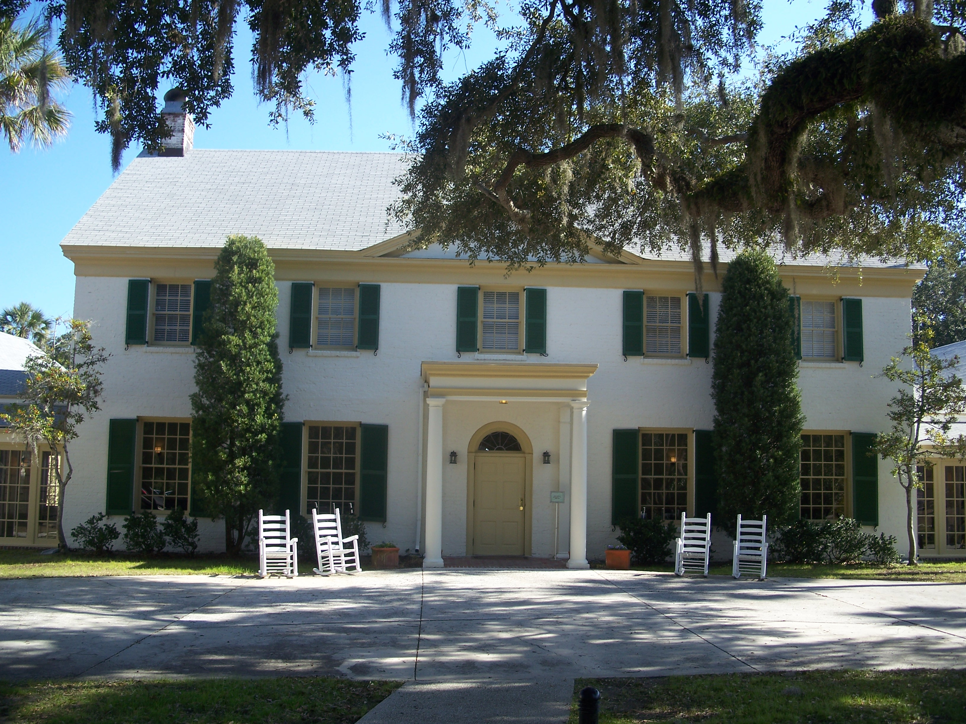 Fort George Island Cultural State Park: Ribault Inn Club